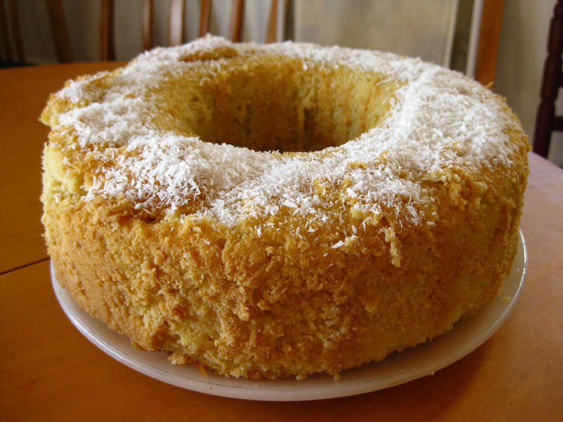 Faviola. És un pastís flonjós i banyat amb licor, de sabor de coco. Faviola, a sponge-like cake bathed in liquor typical of the Catalan-speaking area of Spain.